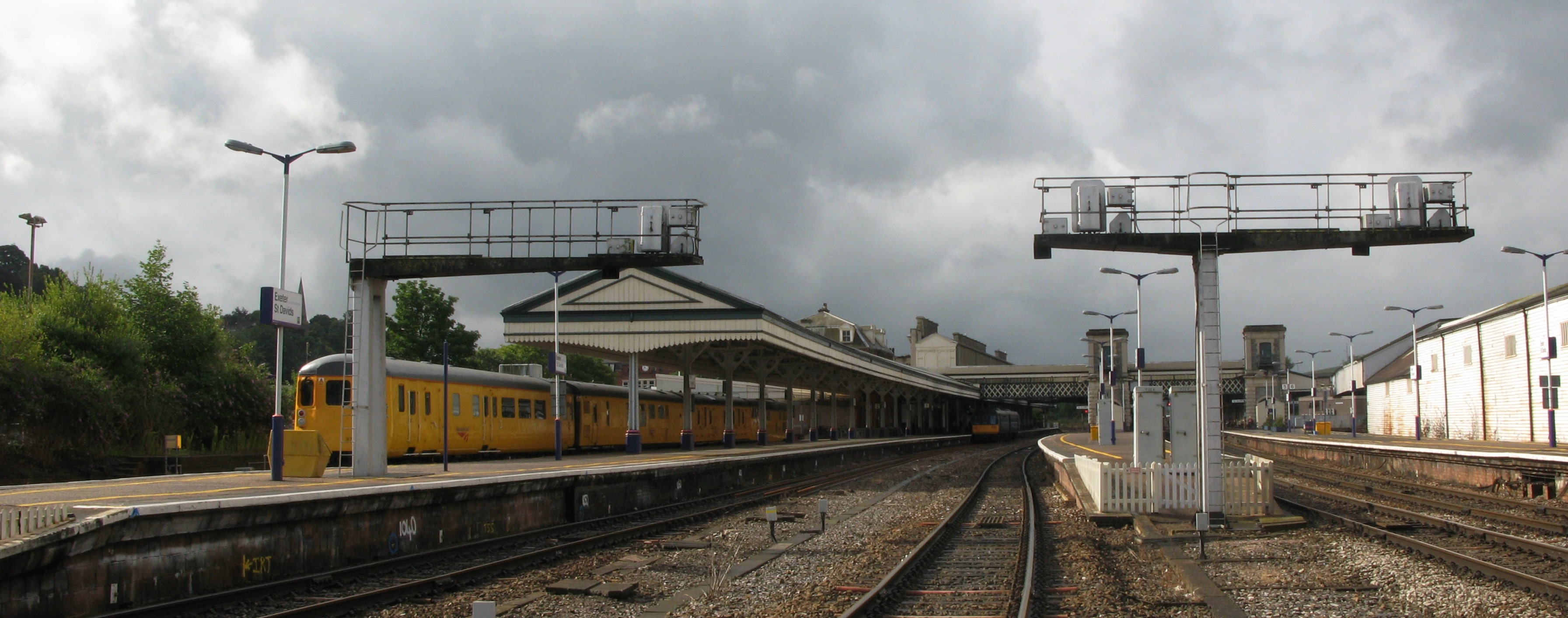 Exeter St Davids railway station, Devon, England seen from the Red Cow level crossing at the north end of the station. Platform 1 is on the left and platform 6 on the right.